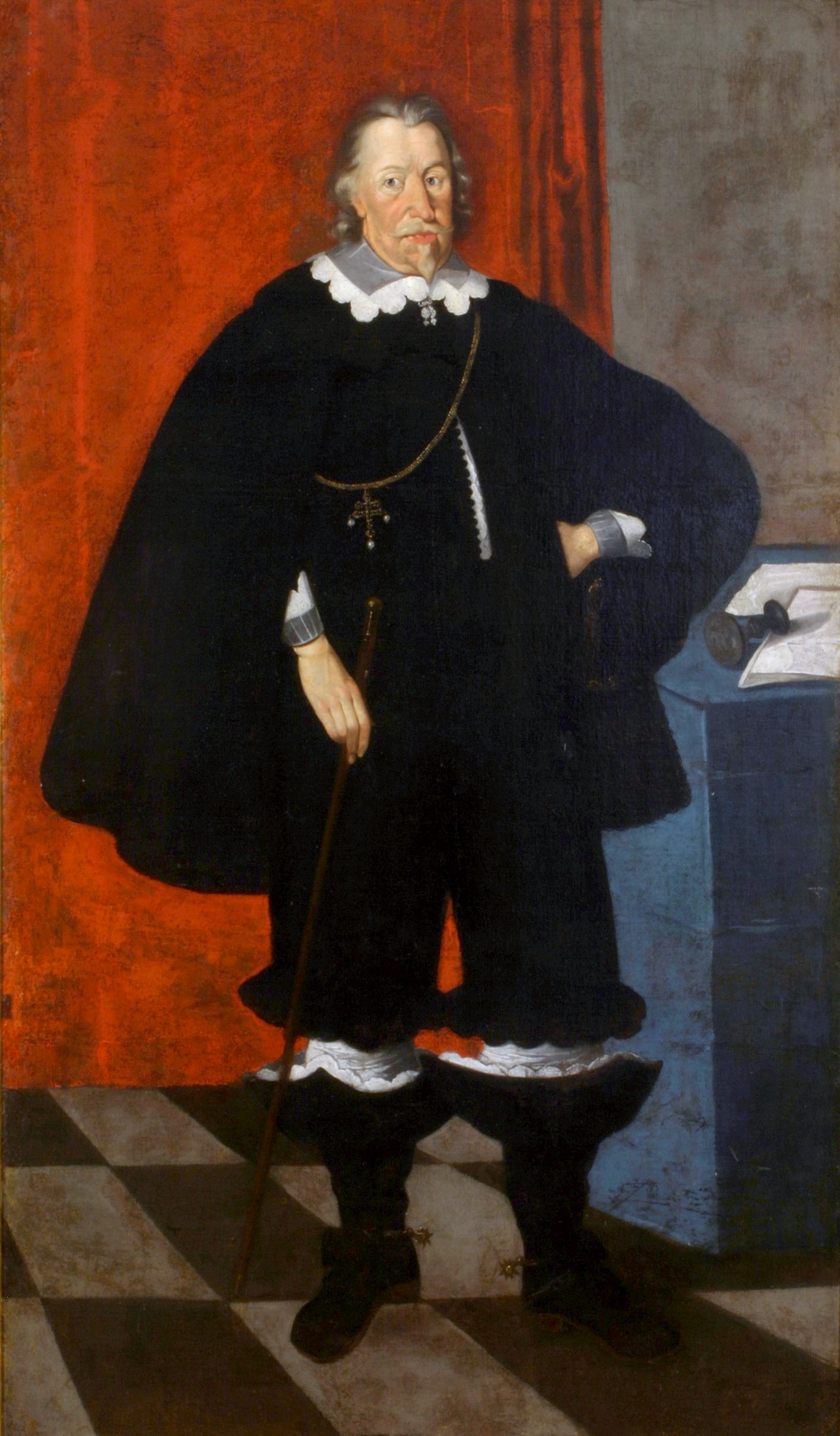 Portrait of Albrecht Stanisław Radziwiłł.